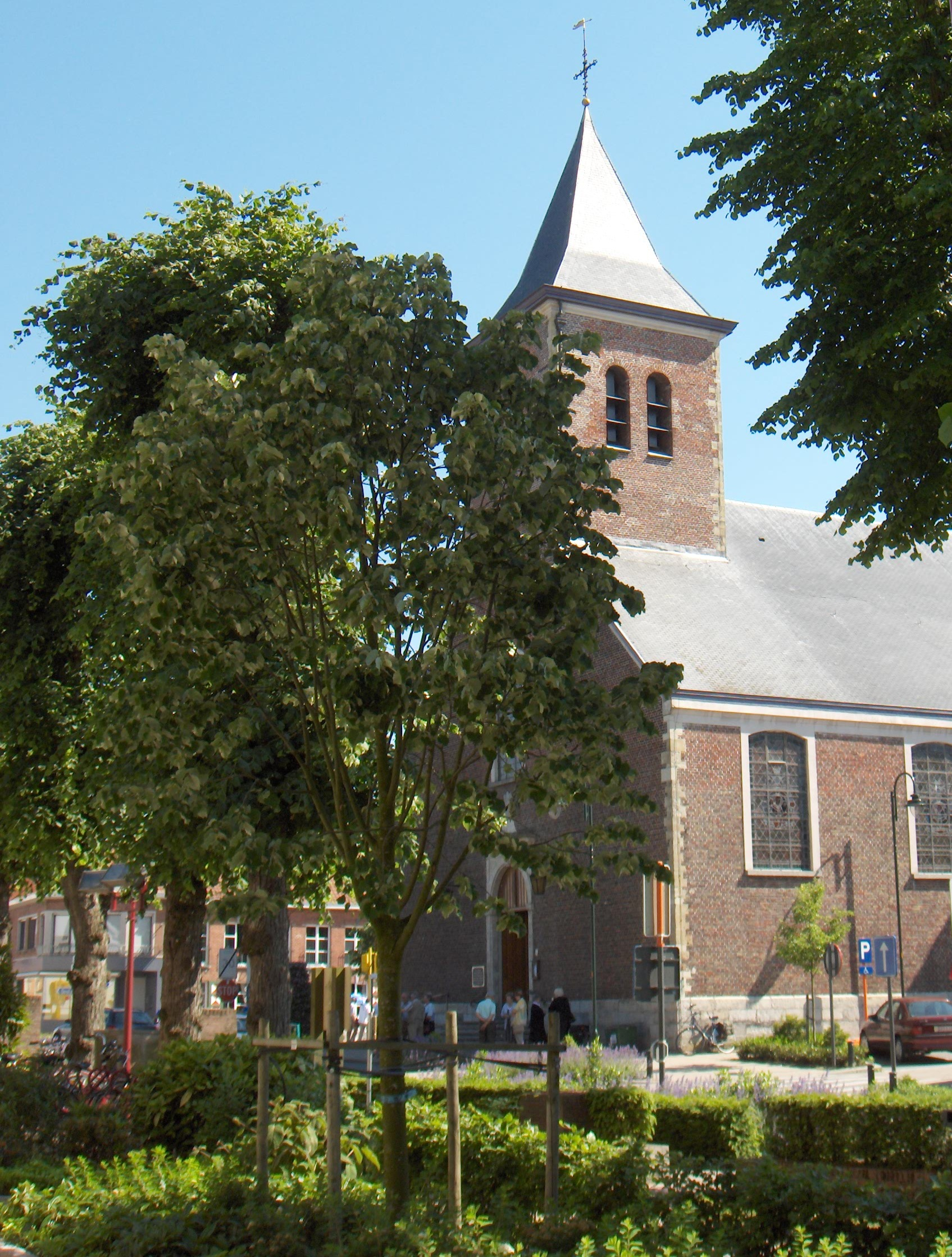 Church of Our Lady of the Snow in Destelbergen. Destelbergen, East Flanders, Belgium. Datum: 11. Juni 2006 Fotograf: Friedrich Tellberg